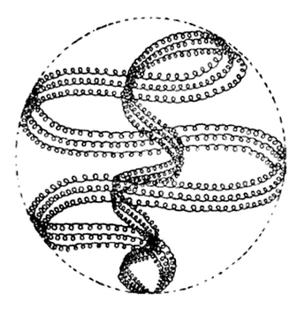 Coils and spirillae in the ultimate physical atom (UPA) according to Besant's and Leadbeater's book Occult Chemistry